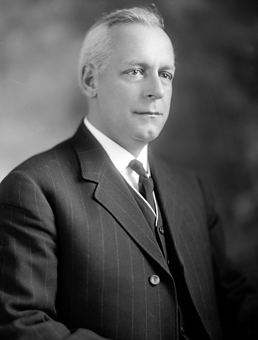 Richard S. Whaley, US Representative from South Carolina